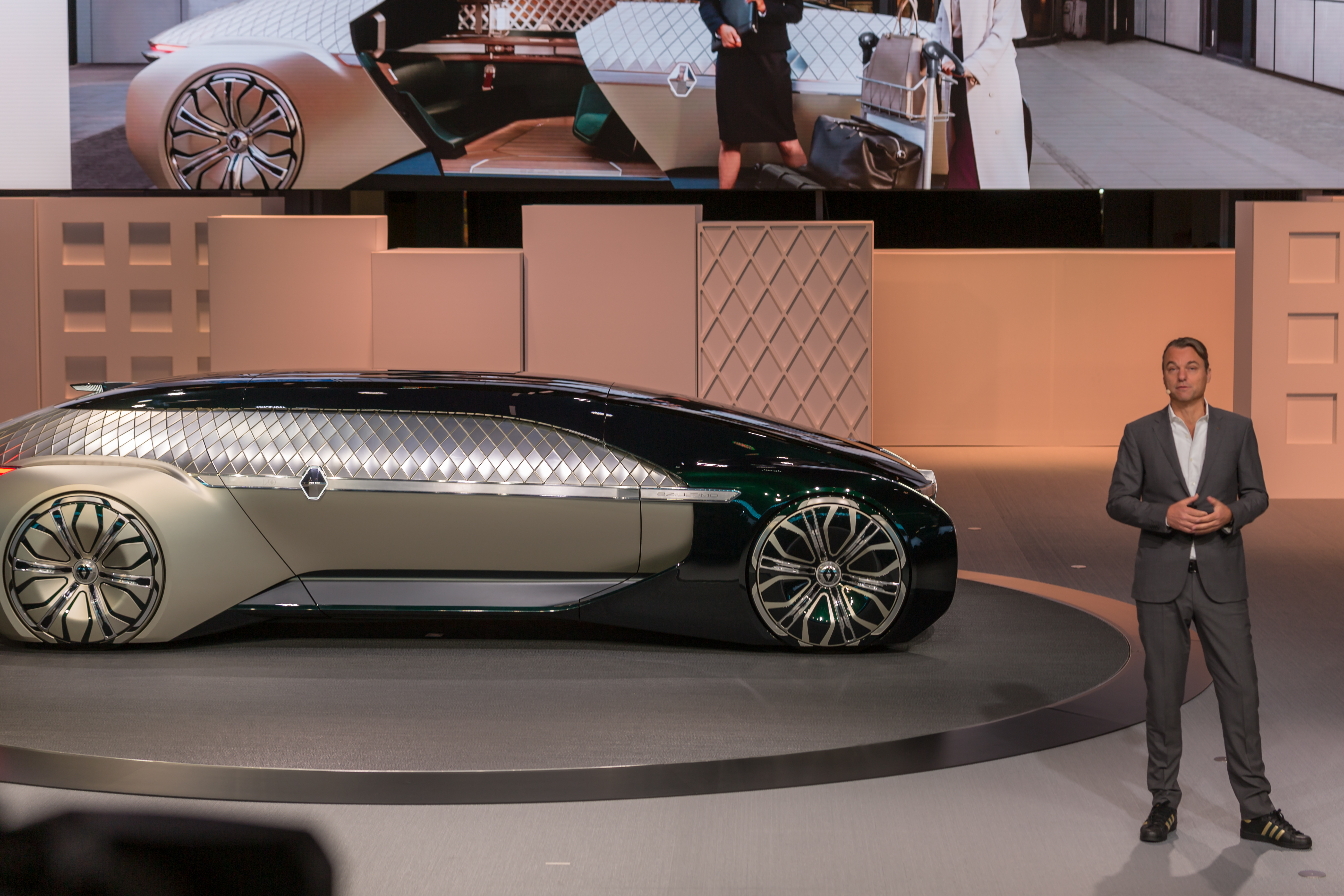 Mondial Paris Motor Show 2018